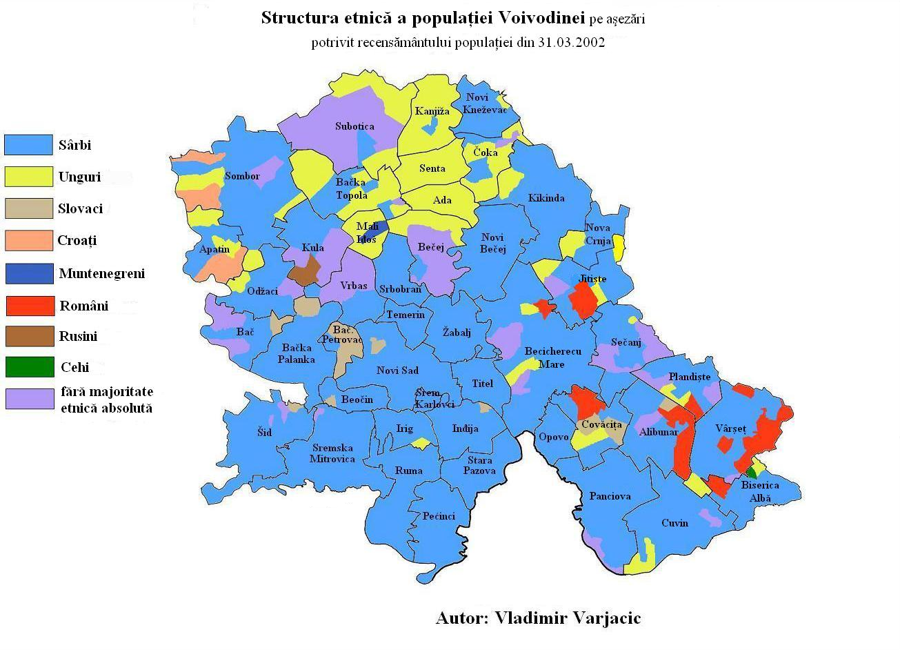 Ethnic map of Vojvodina by settlements in 2002. Category:Ethnic maps